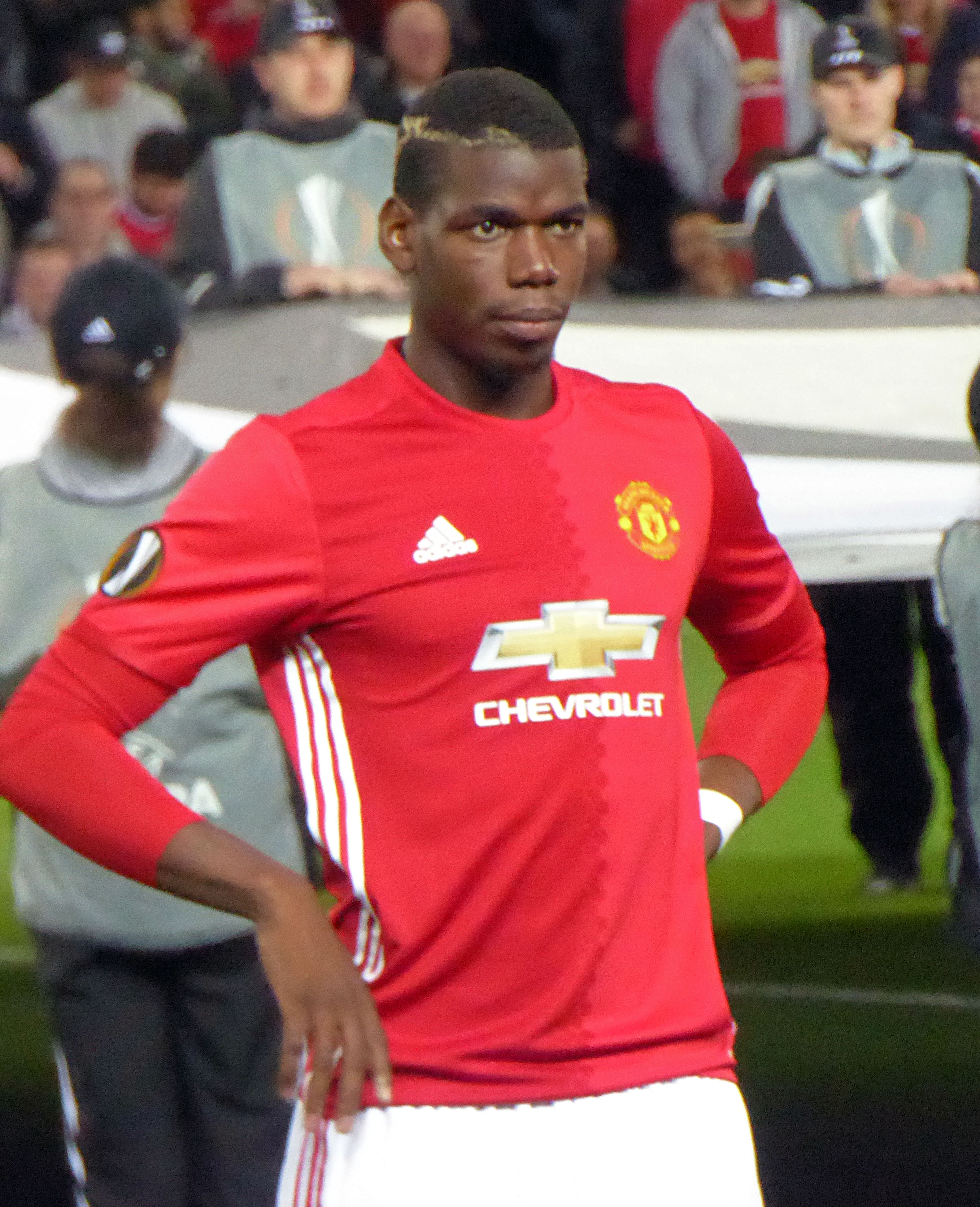 Manchester United v Zorya Luhansk (1-0), Europa League, Old Trafford, Manchester, Greater Manchester, England, September 2016.